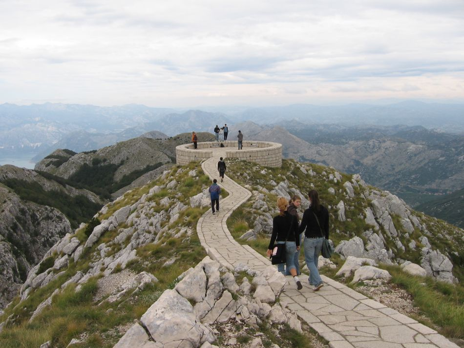 Panorama from the mountain Lovćen.